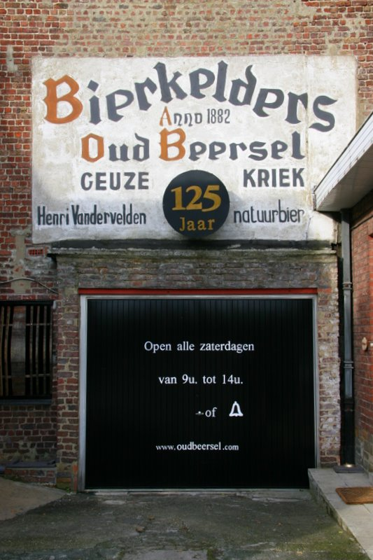 The entrance of the Oud Beersel brewery in Beersel, Belgium